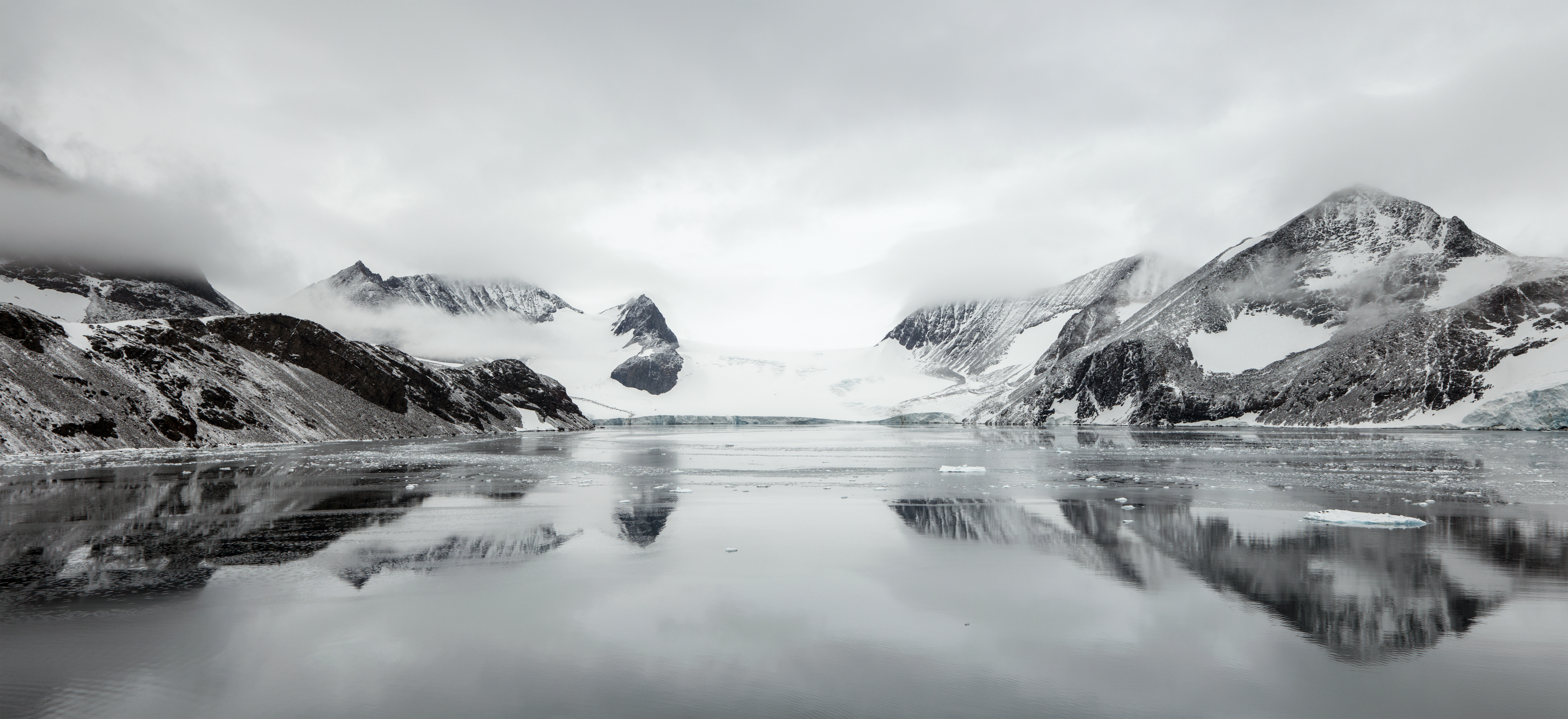 Depot Glacier, Hope Bay, Trinity Peninsula, on the northernmost tip of the Antarctic Peninsula